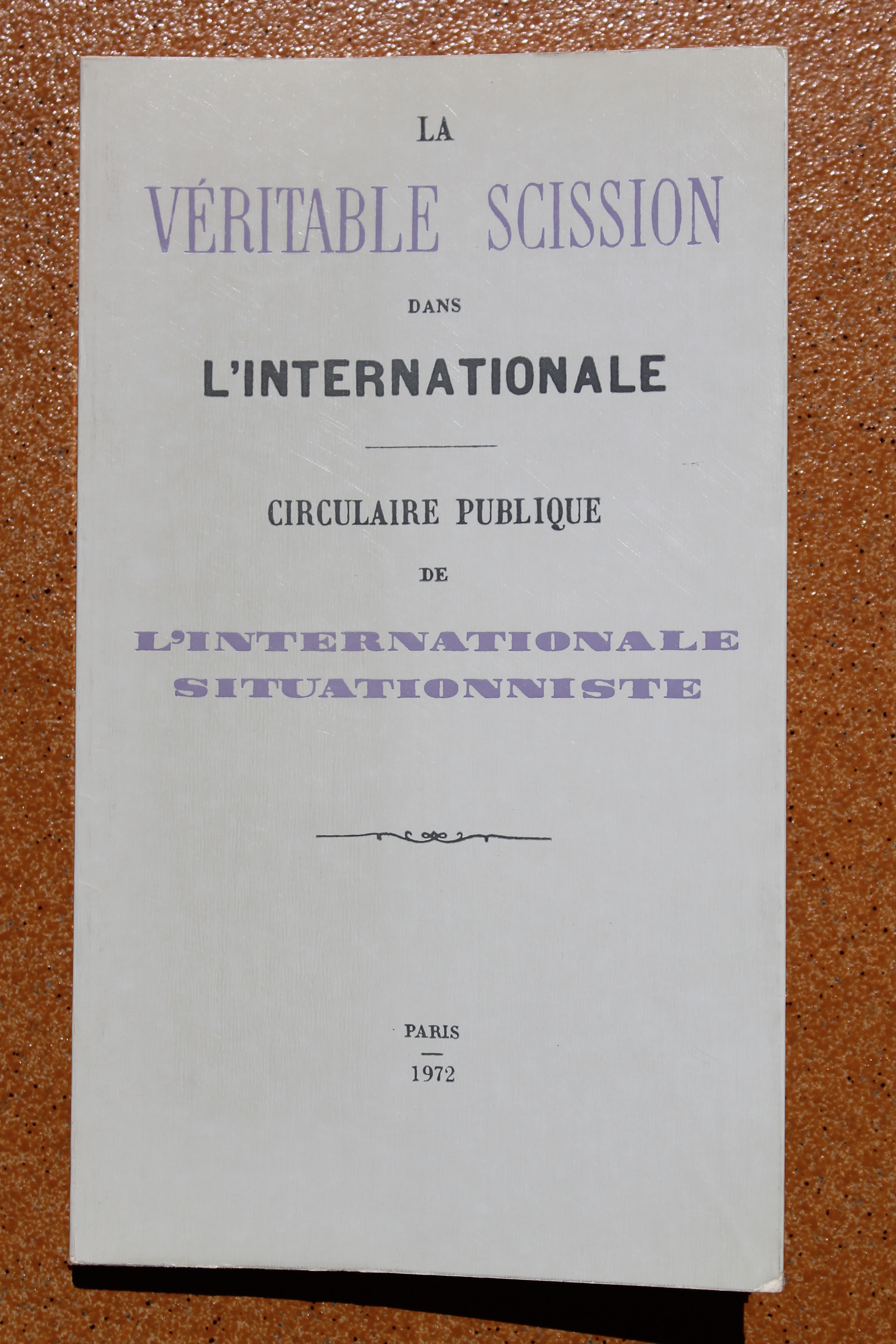 La Véritable Scission cover